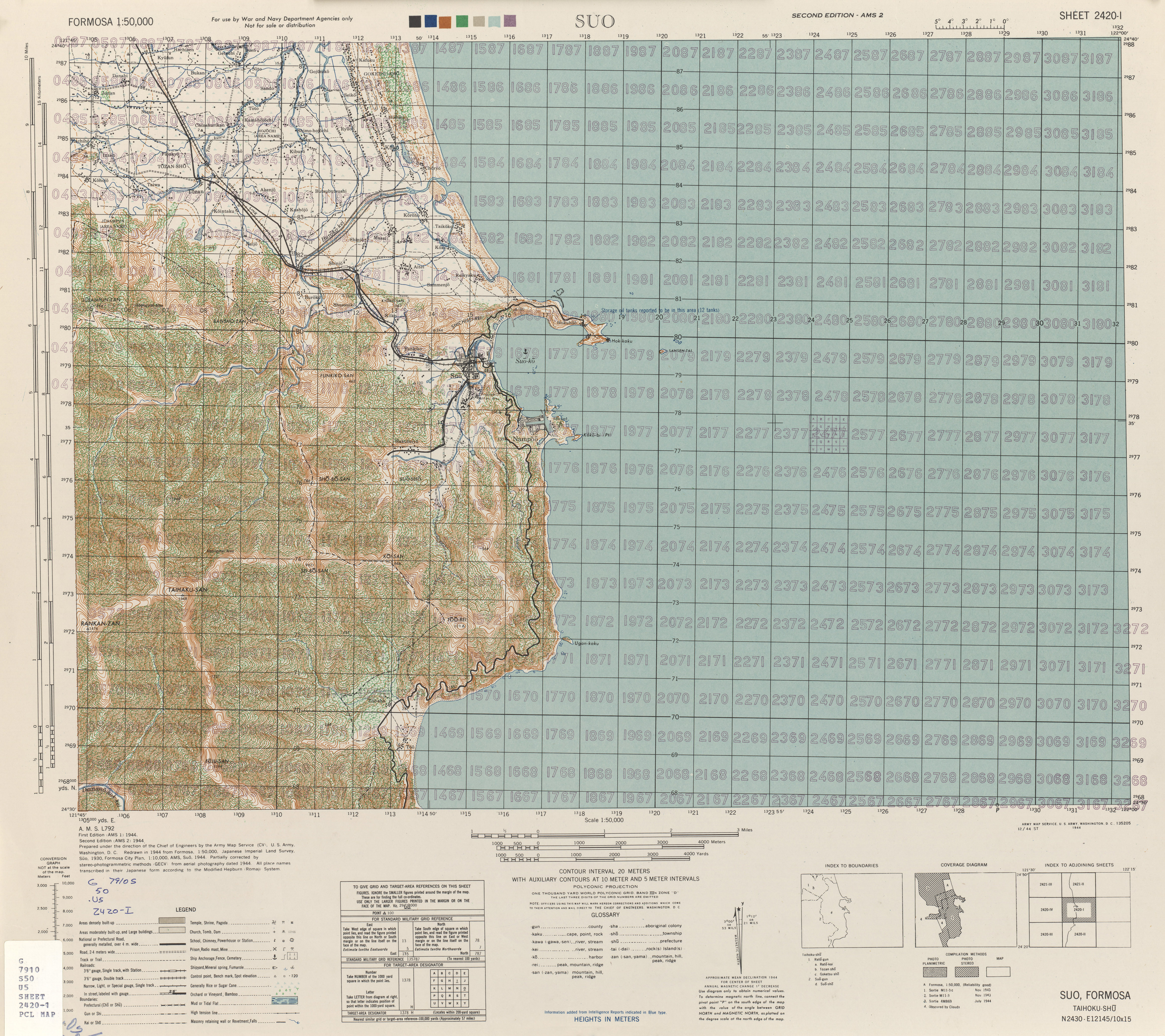 Map from Formosa (Taiwan) 1:50,000 AMS Series L792